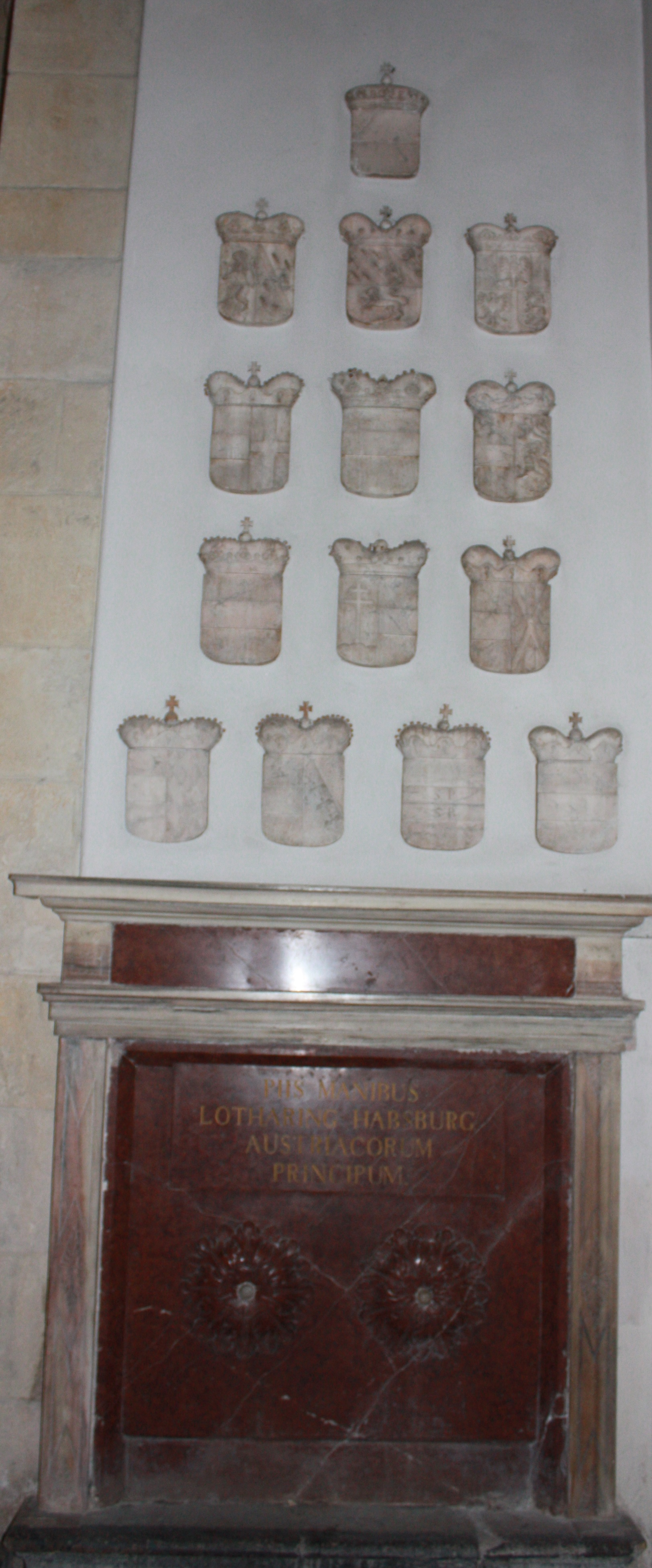 Abbey church - Coats of Arms Locality: Sankt Paul im Lavanttal Community:Sankt Paul im Lavanttal